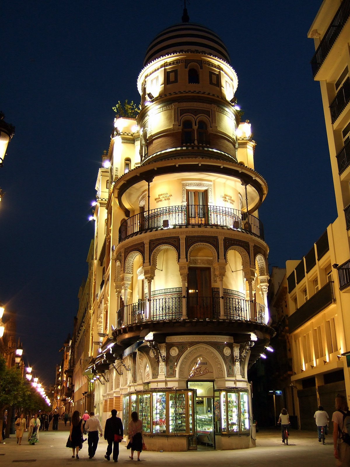 "La Adriática" building by José Espiau y Muñoz on the Avenida de la Constitución in Seville. Built between 1914 and 1922